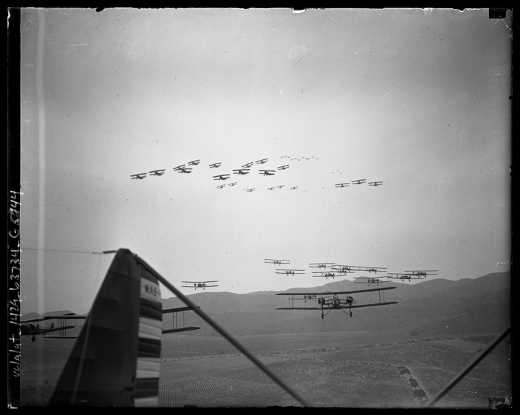 Viewed from cockpit of plane, Army Air Corps planes doing aerial maneuvers over California, circa 1930